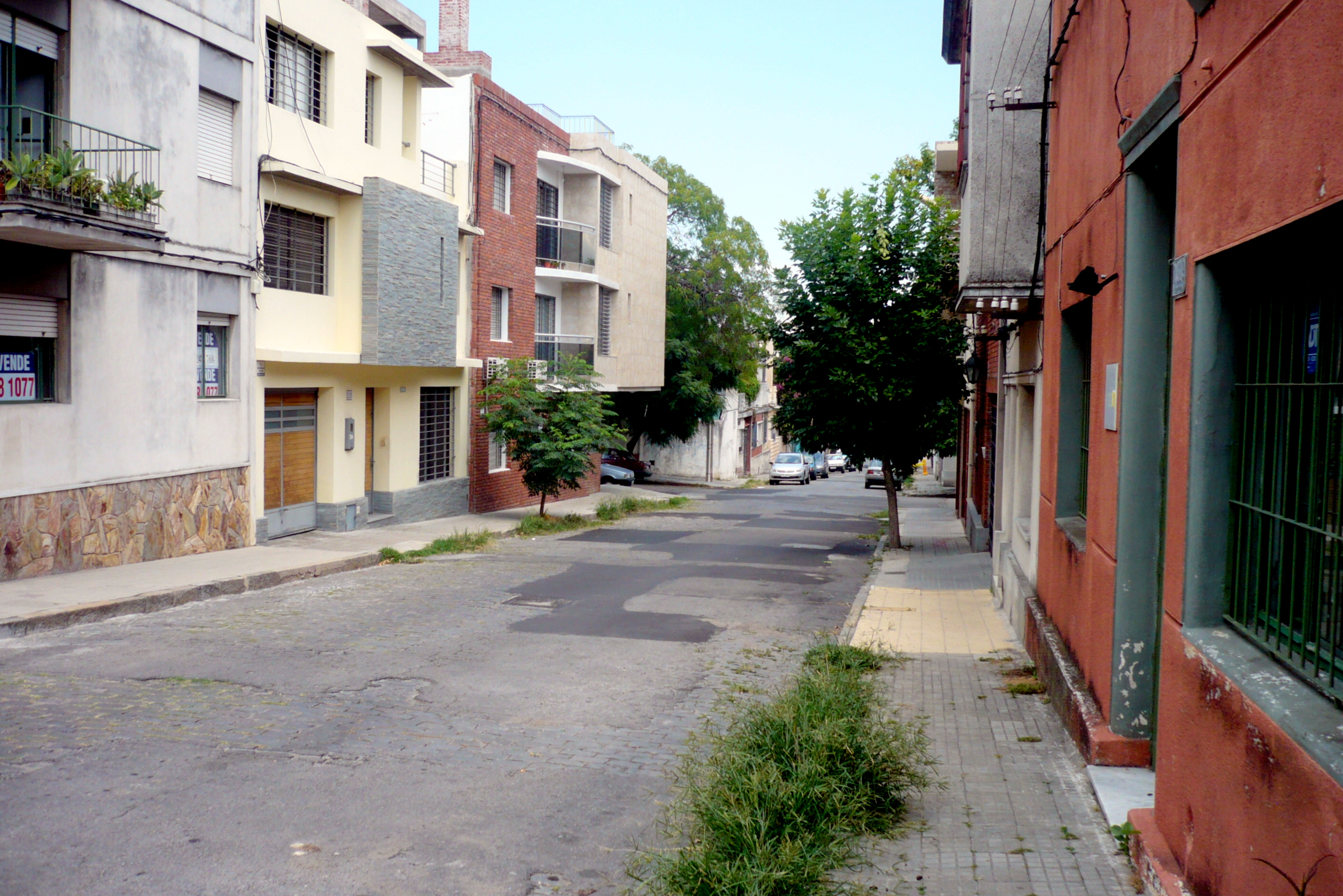 Calle Liber Arce